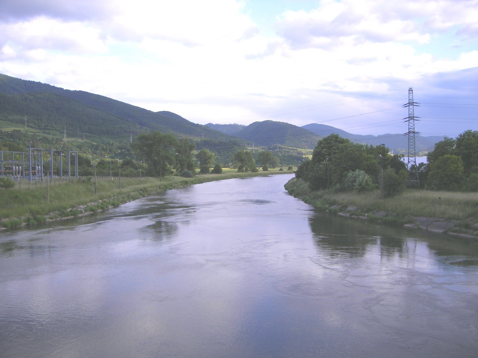 Krpeľany - Váh River